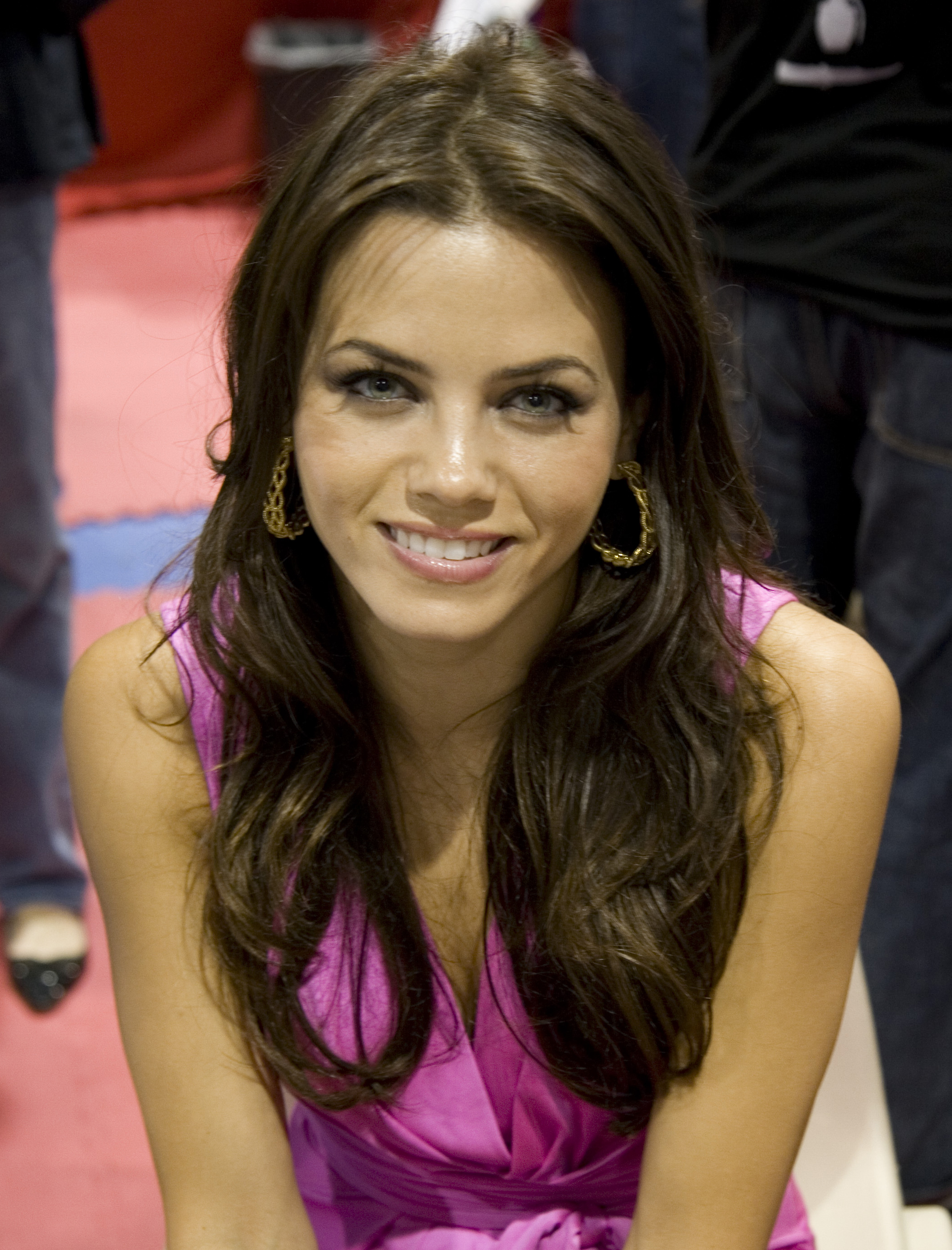 Jenna Dewan at the 2008 San Diego Comic-Con Convention.